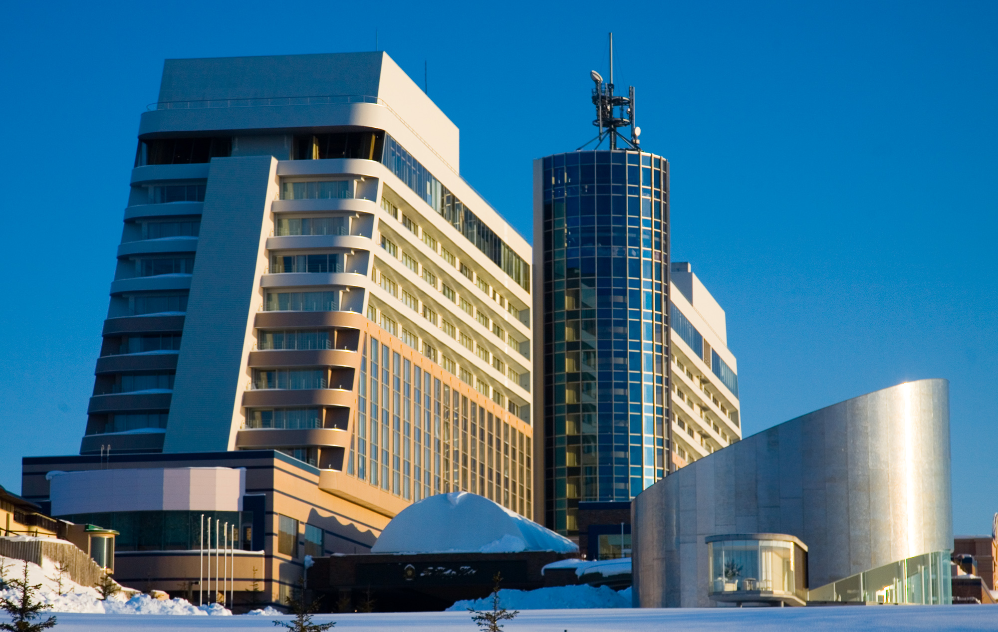 Windsor Hotel in Feb 2008.